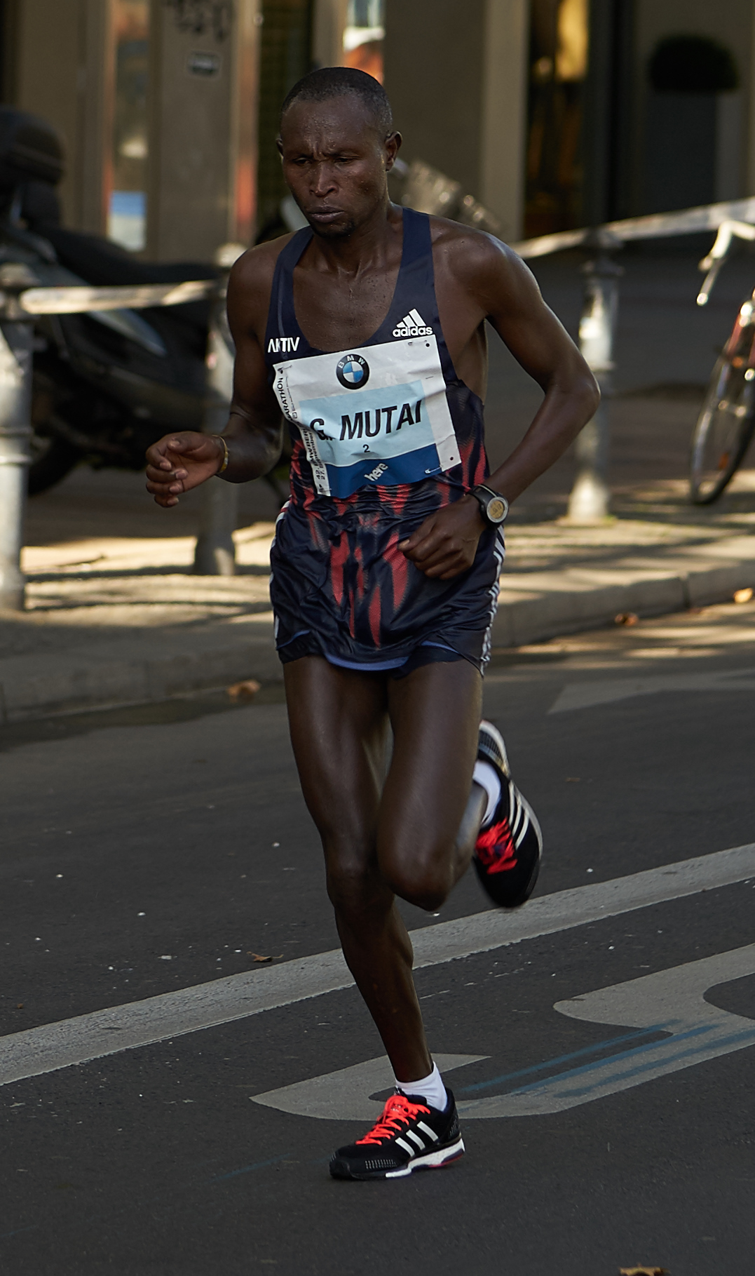 Berlin Marathon 2015 Mutai, Geoffrey (KEN)